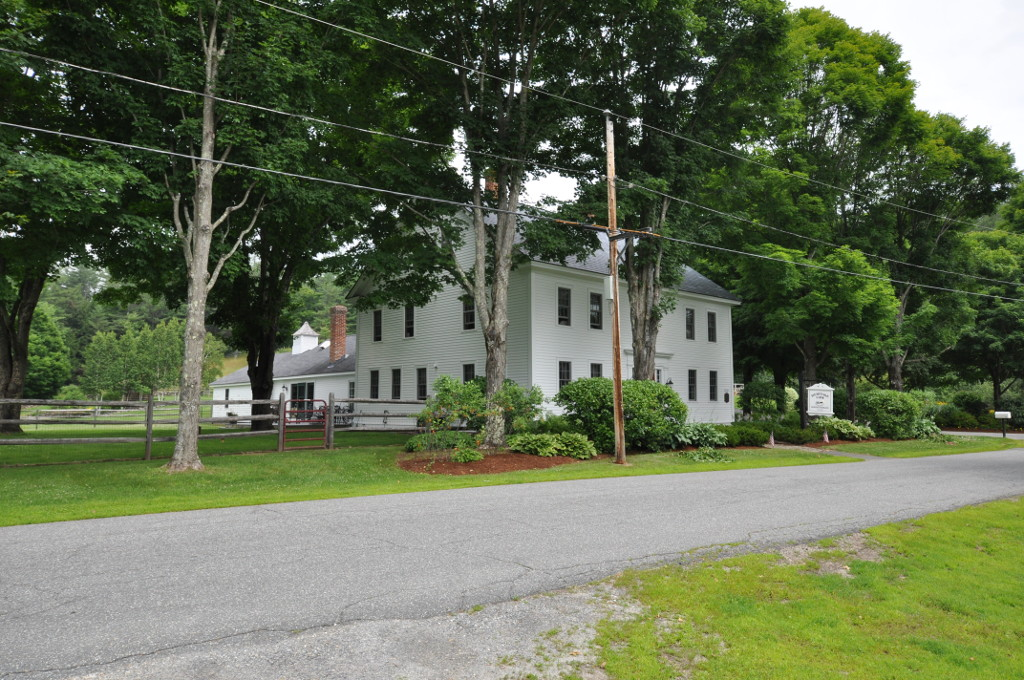 Stockbridge Common Historic District, Stockbridge, Vermont.